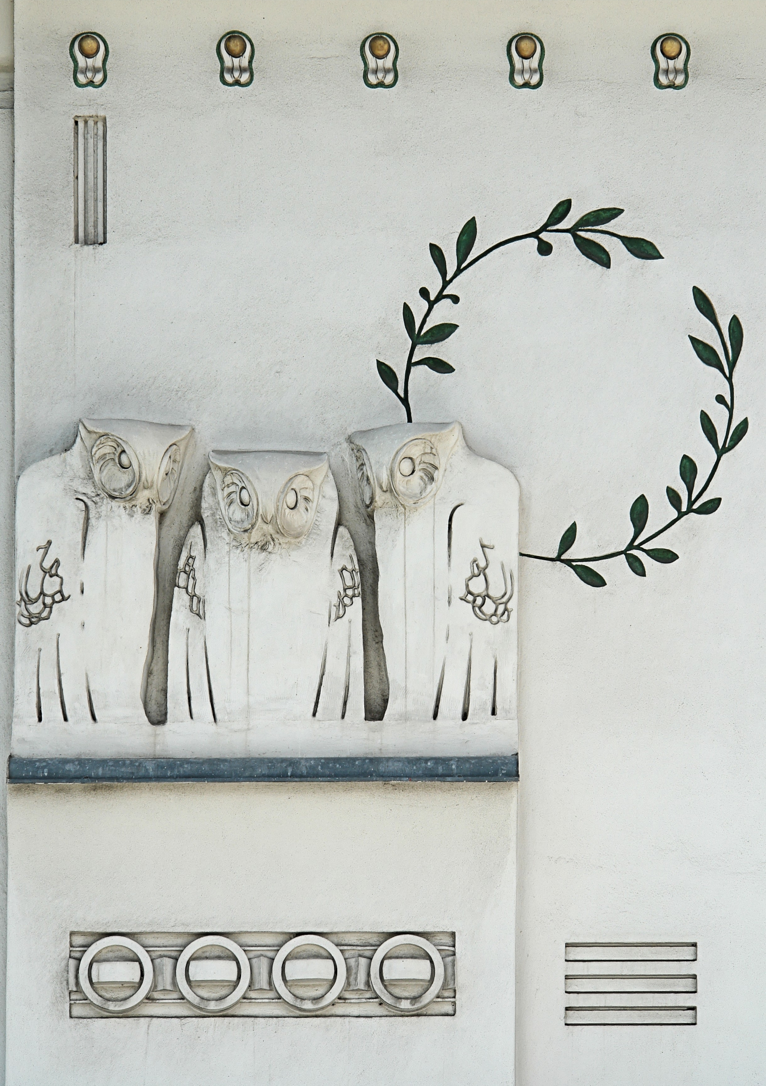 Jugendstil owls - Detail of the facade of the Secession Building (Vienna, Austria) The designs for the Secession building’s facade decoration are attributed to Koloman Moser.